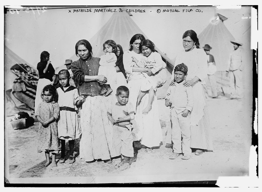 Bain News Service,, publisher. Mathilde Martinez & children [between ca. 1910 and ca. 1915] 1 negative : glass ; 5 x 7 in. or smaller. Notes: Title from data provided by the Bain News Service on the negative. Photo copyrighted by the Mutual Film Co. who contracted with Pancho Villa to produce a silent film "The life of General Villa" during the Mexican Revolution in 1914. (Source: Flickr Commons project, 2010) Photo shows women and children standing among tents during the Mexican Revolution, possibly at Marfa, Texas. (Source: Flickr Commons project, 2010 and Bain negative: LC-B2-2985-13) Forms part of: George Grantham Bain Collection (Library of Congress). Format: Glass negatives. Repository: Library of Congress, Prints and Photographs Division, Washington, D.C. 20540 USA, General information about the Bain Collection is available at Higher resolution image is available (Persistent URL): Call Number: LC-B2- 2975-10